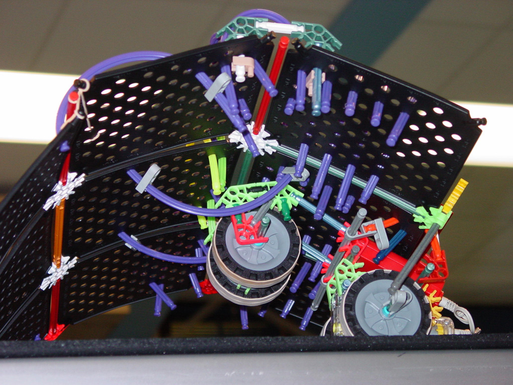 Own photograph, taken July 2002. Source